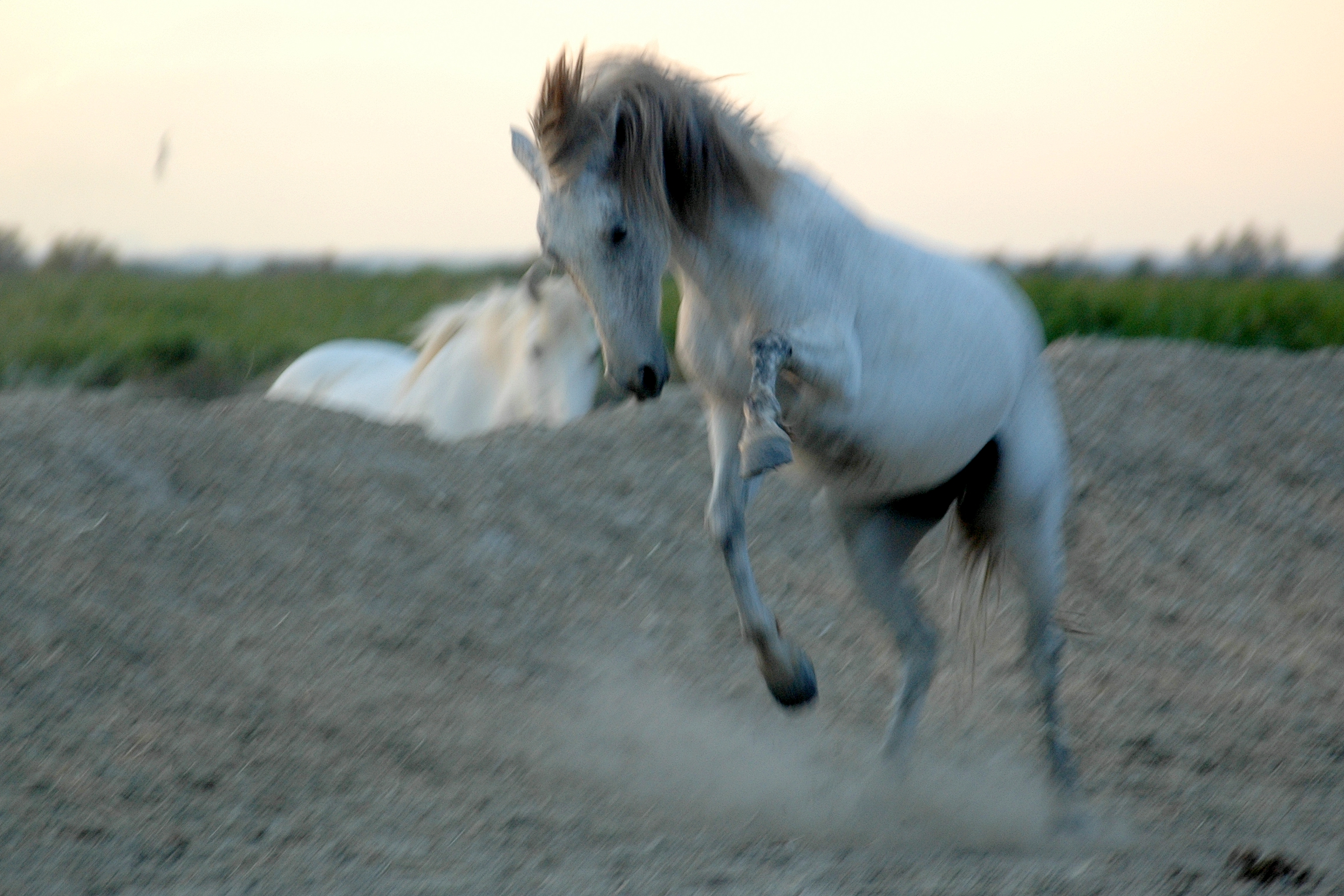 Horse in the Camargue bucking